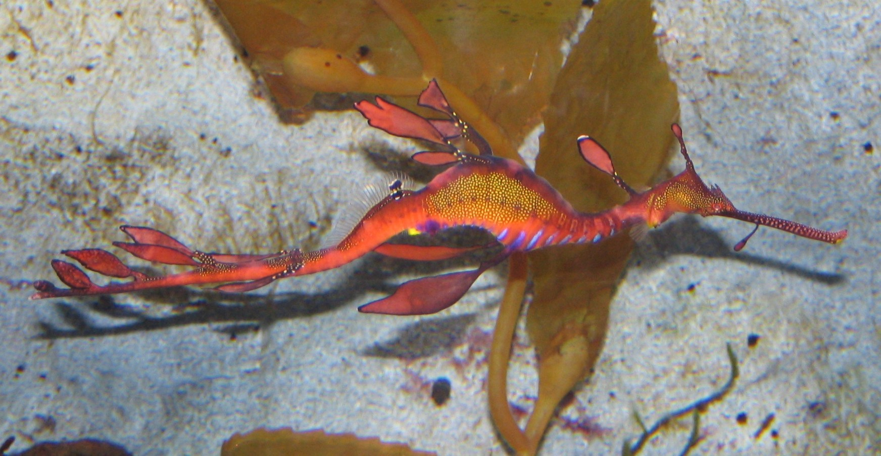 Weedy sea dragon at UnderWater World, Queensland. Own photo